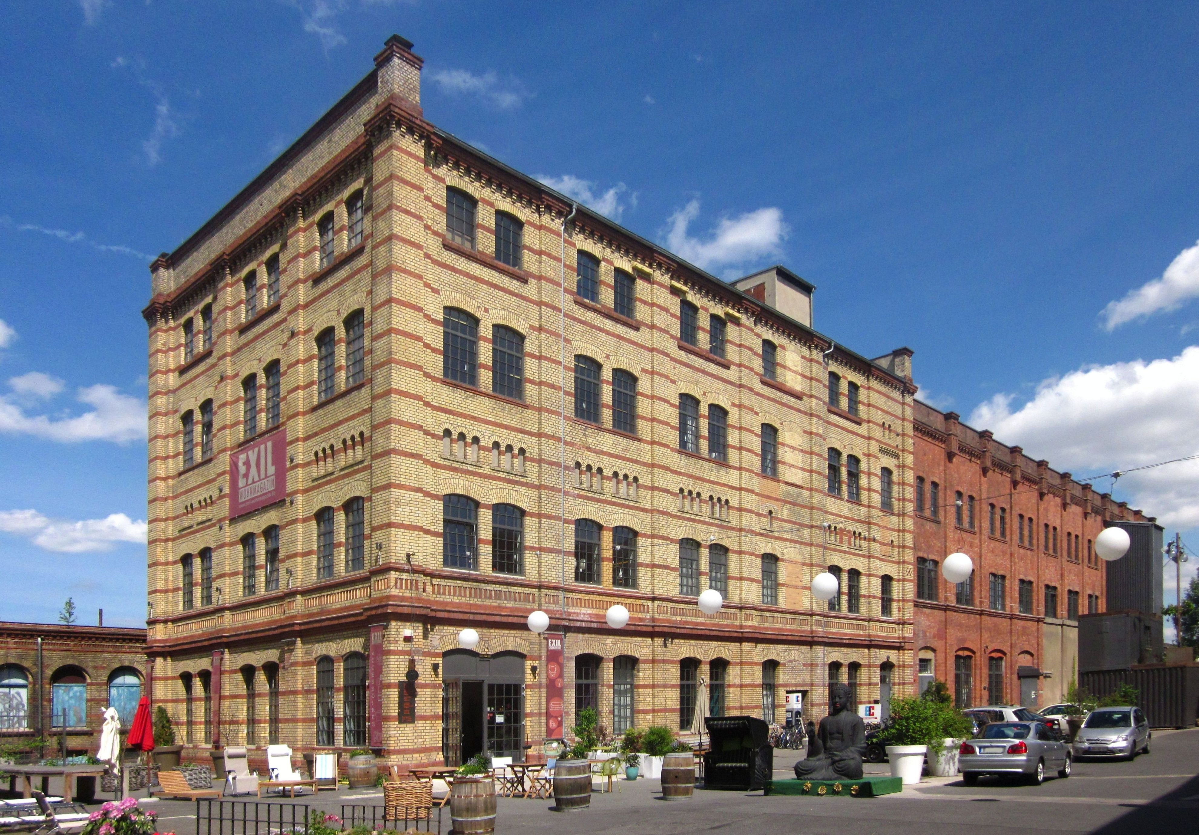 Buidings of the former Berlin Velvet Factory Martin Mengers & Söhne at Köpenicker Straße No. 20 in Berlin-Kreuzberg. The altogether three preserved buildings were constructed until 1868 by Carl Lüdecke and in 1883 by Winkelmann. The whole complex has been designated as a cultural heritage monument.